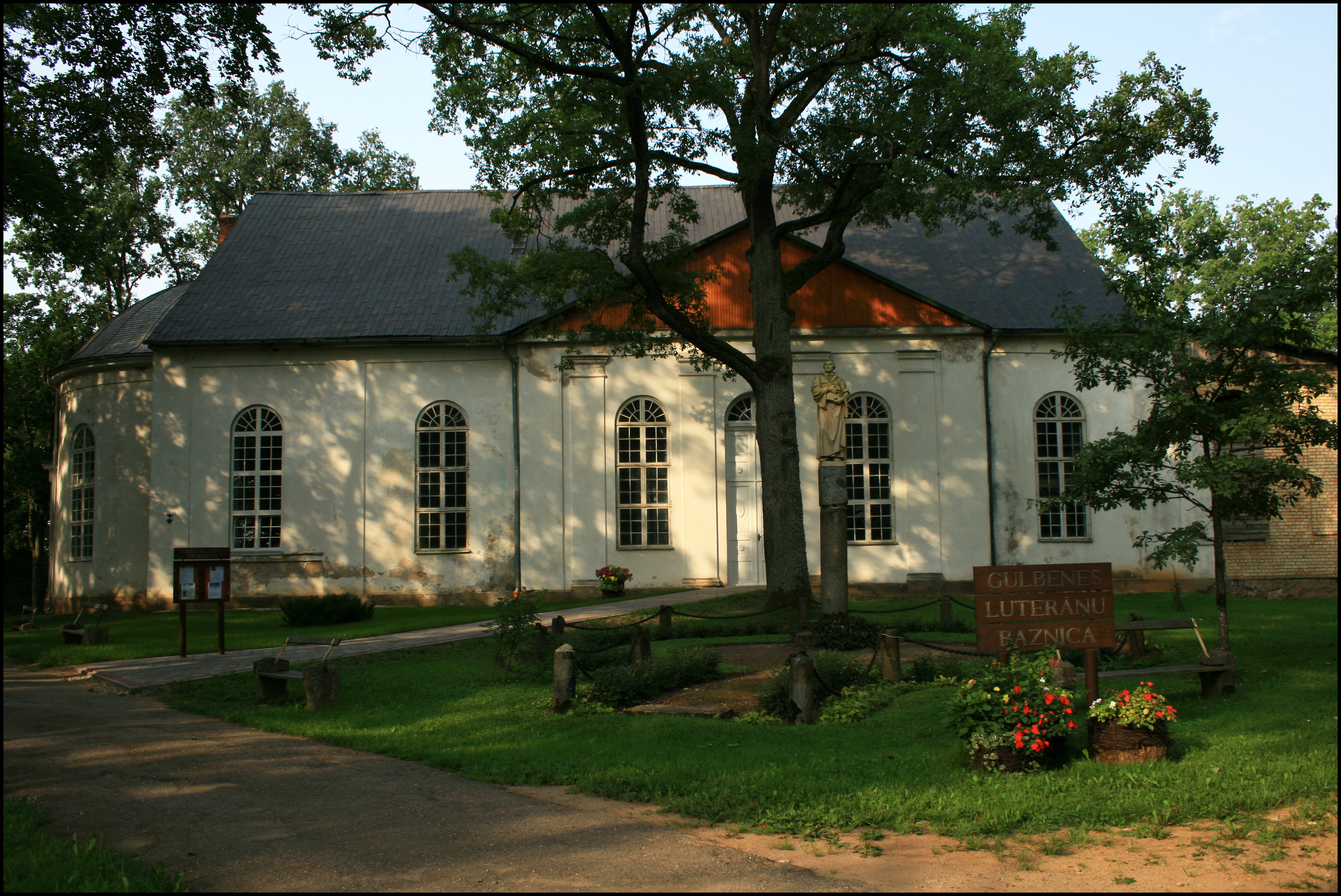 Gulbene Evangelical Lutheran ChurchLatviešu: Gulbenes evaņģēliski luteriskā baznīca